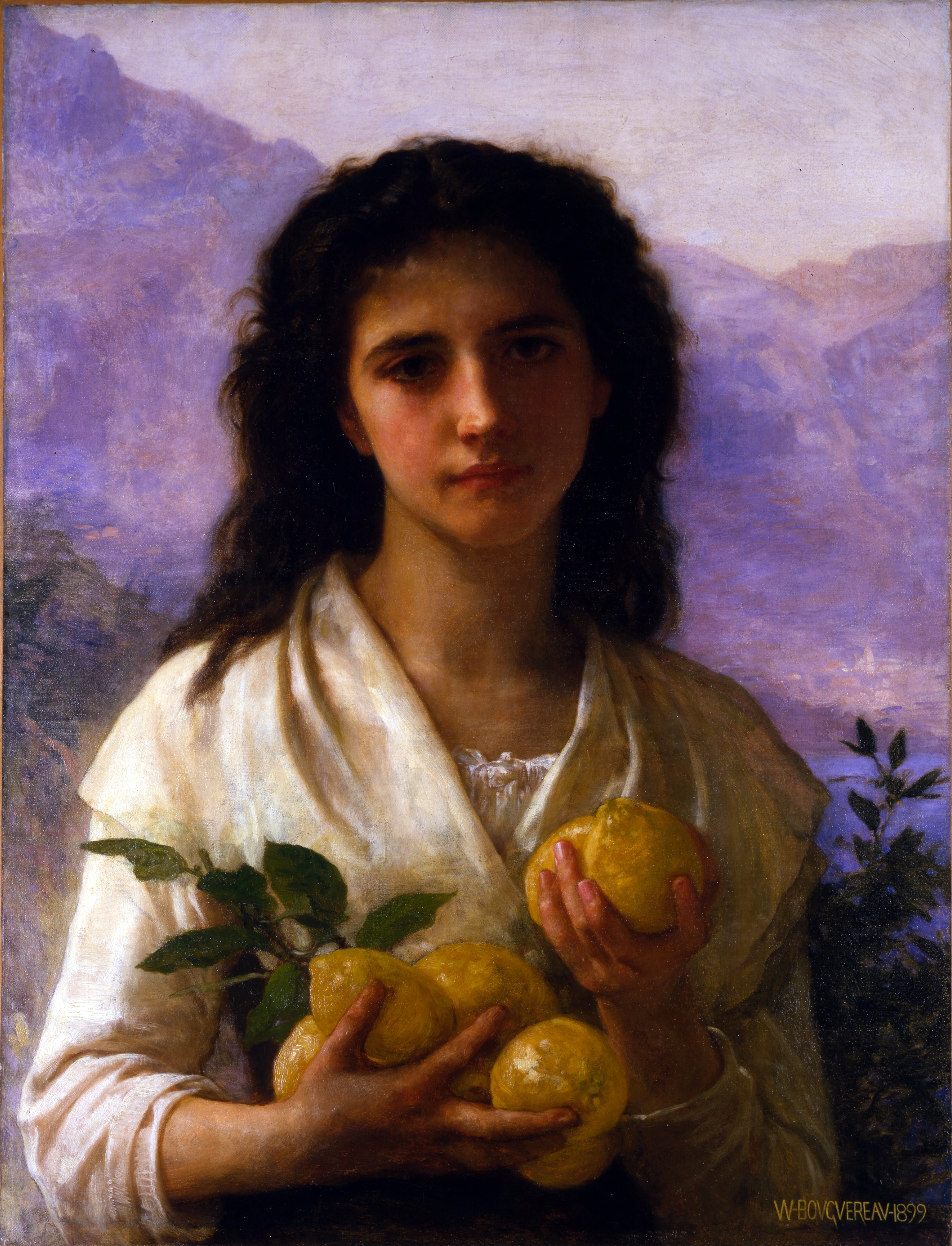 William-Adolphe Bouguereau (1825-1905) - Girl Holding Lemons (1899)